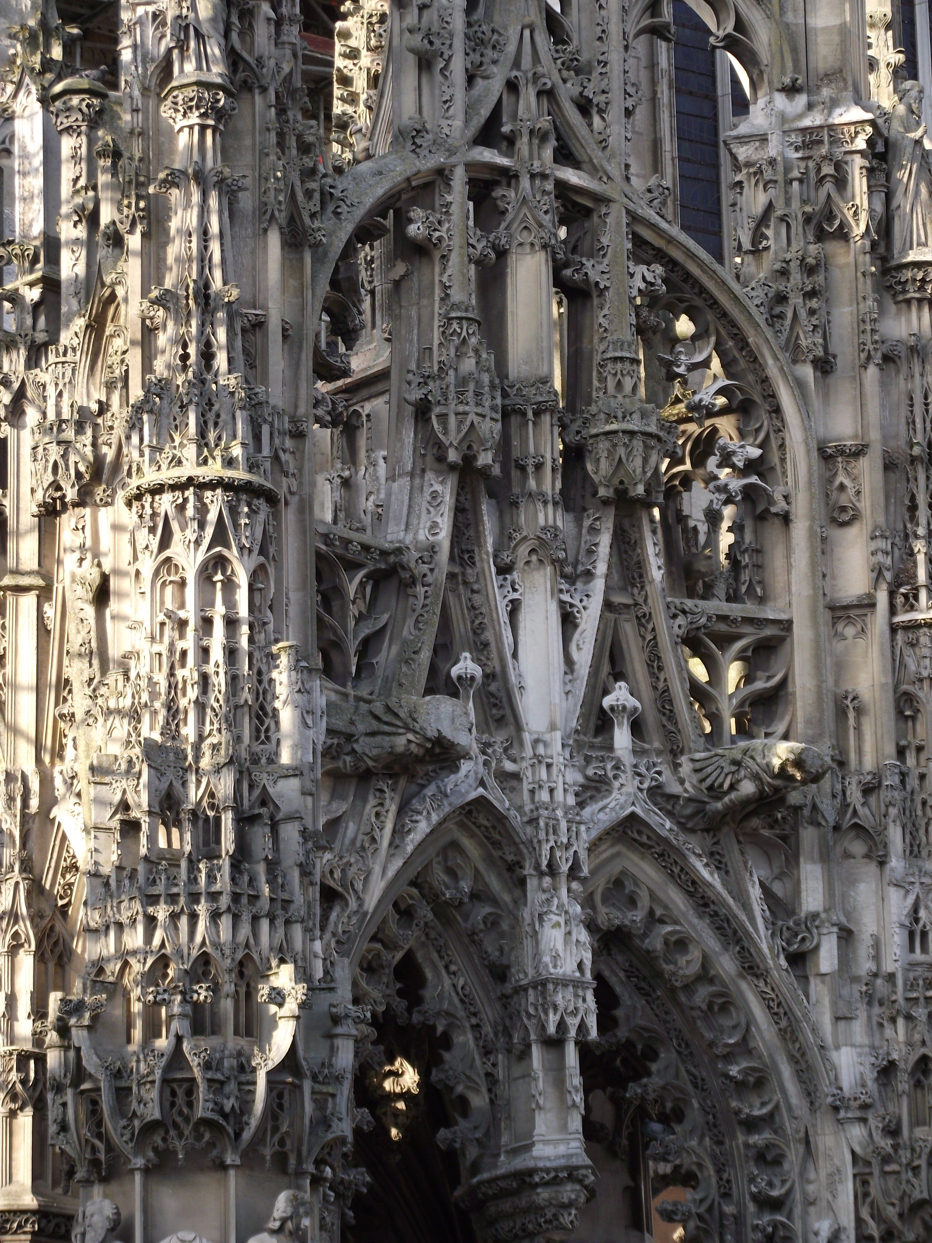 Louviers, Church of Our Lady, XI-XIII Century